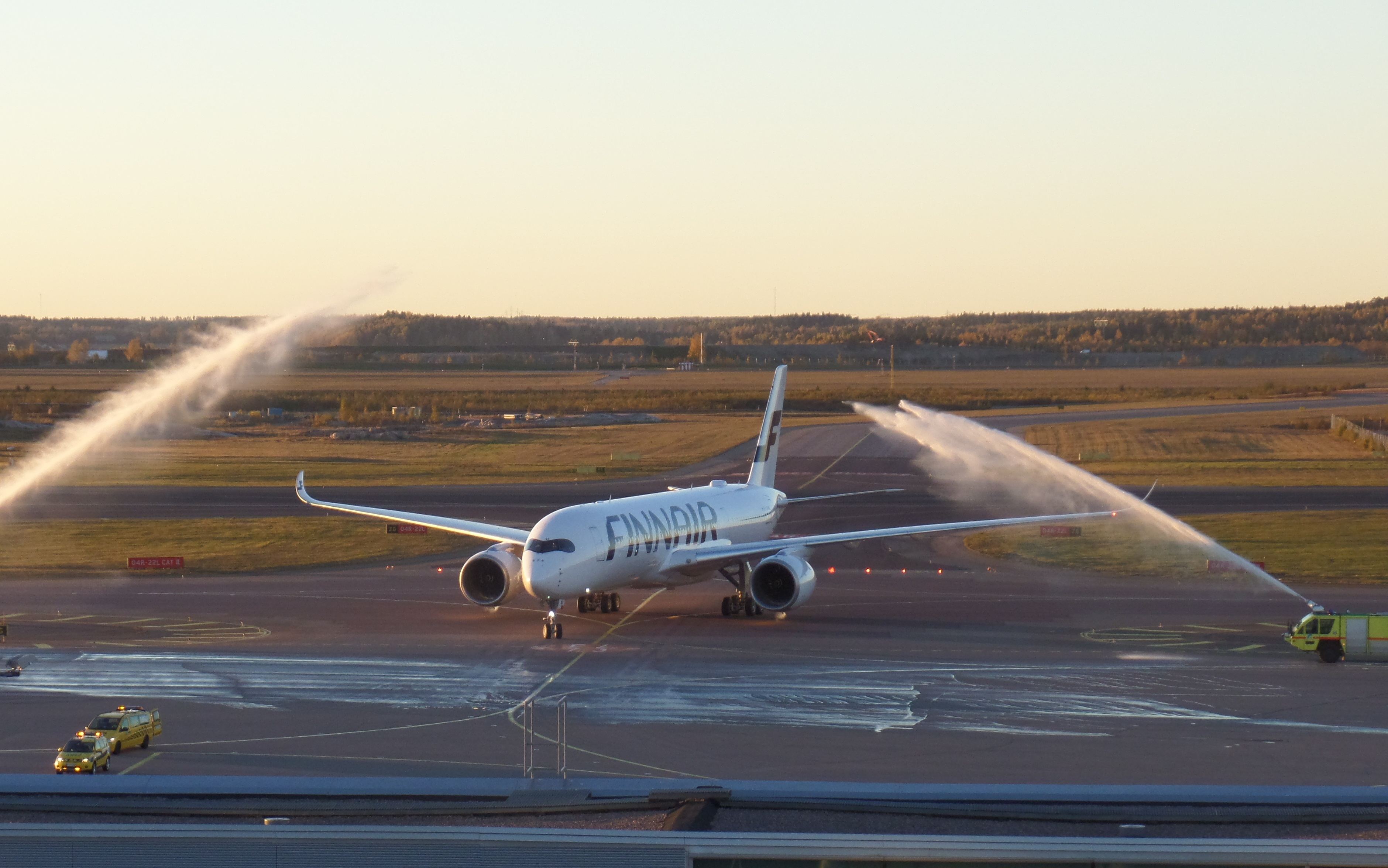 Finnair's first Airbus A350-941 OH-LWA gets a traditional water salute after landing at Helsinki-Vantaa Airport for the first time on 7 October 2015.